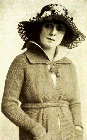 Actress Fay Tincher, on page 1772 of the March 29, 1919 Moving Picture World.